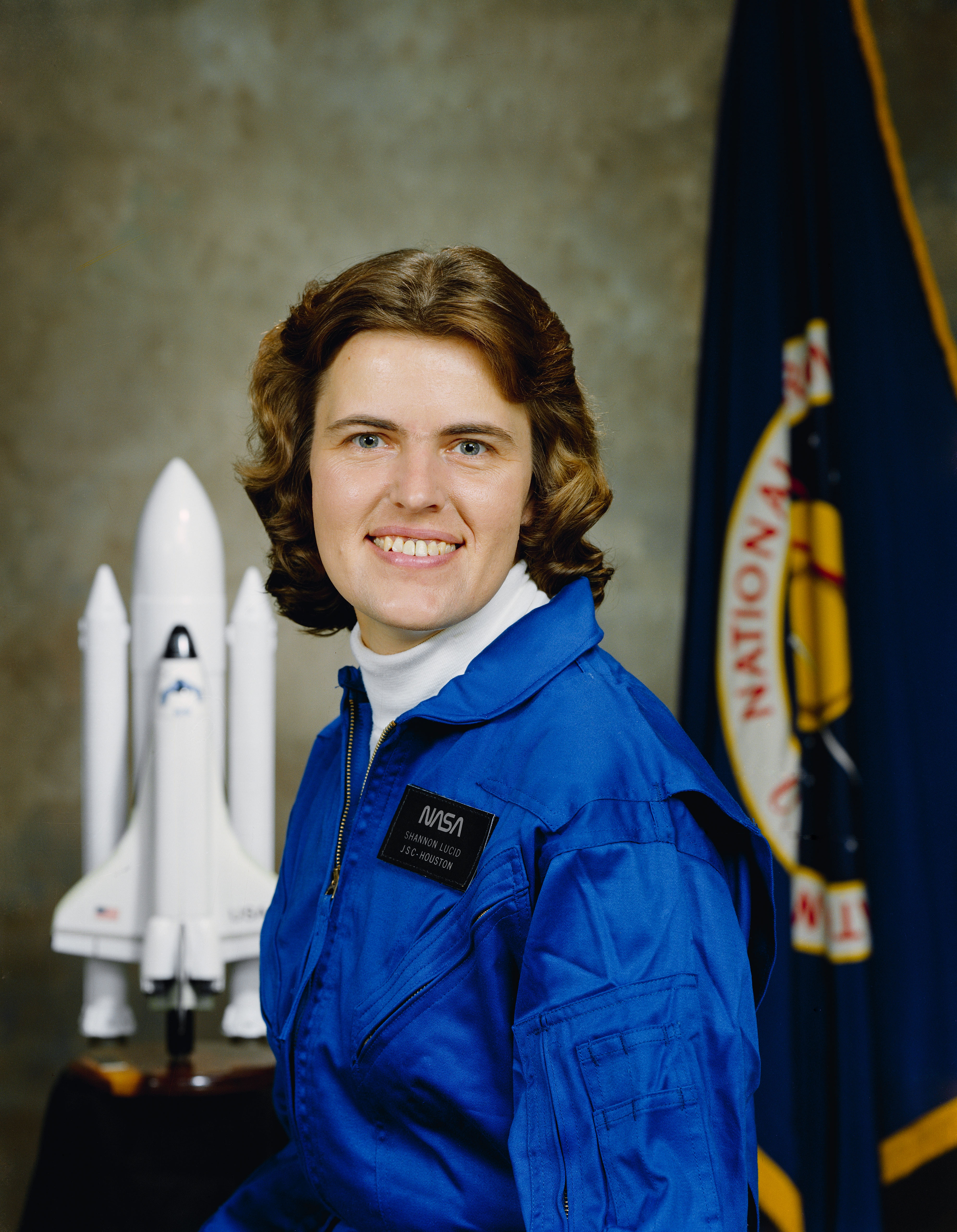 Shannon Lucid in 1978 at age 35.